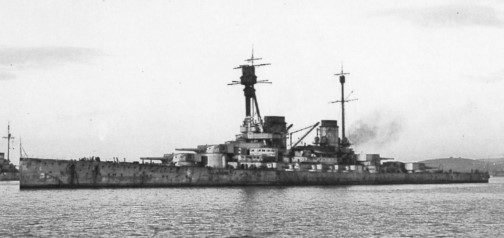 German battlecruiser SMS Hindenburg interned at Scapa Flow.